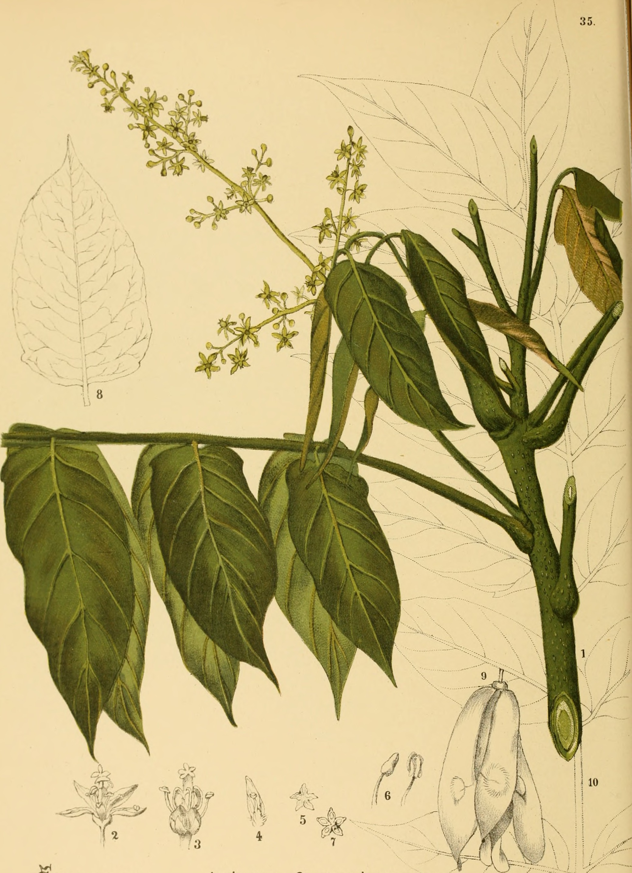 Title: American medicinal plants; : an illustrated and descriptive guide to the American plants used as homopathic remedies : their history, preparation, chemistry, and physiological effects. Year: 1887 (1880s) Authors: Millspaugh, Charles Frederick, 1854-1923 Subjects: Botany, Medical; Botany; Botany; Botany Publisher: New York ; Philadelphia : Boericke & Tafel. Text Appearing Before Image: ' Text Appearing After Image: ^m.ad natdei.etpinxt. AlLANTHUS GLANDUL6SUS,Desf. i I